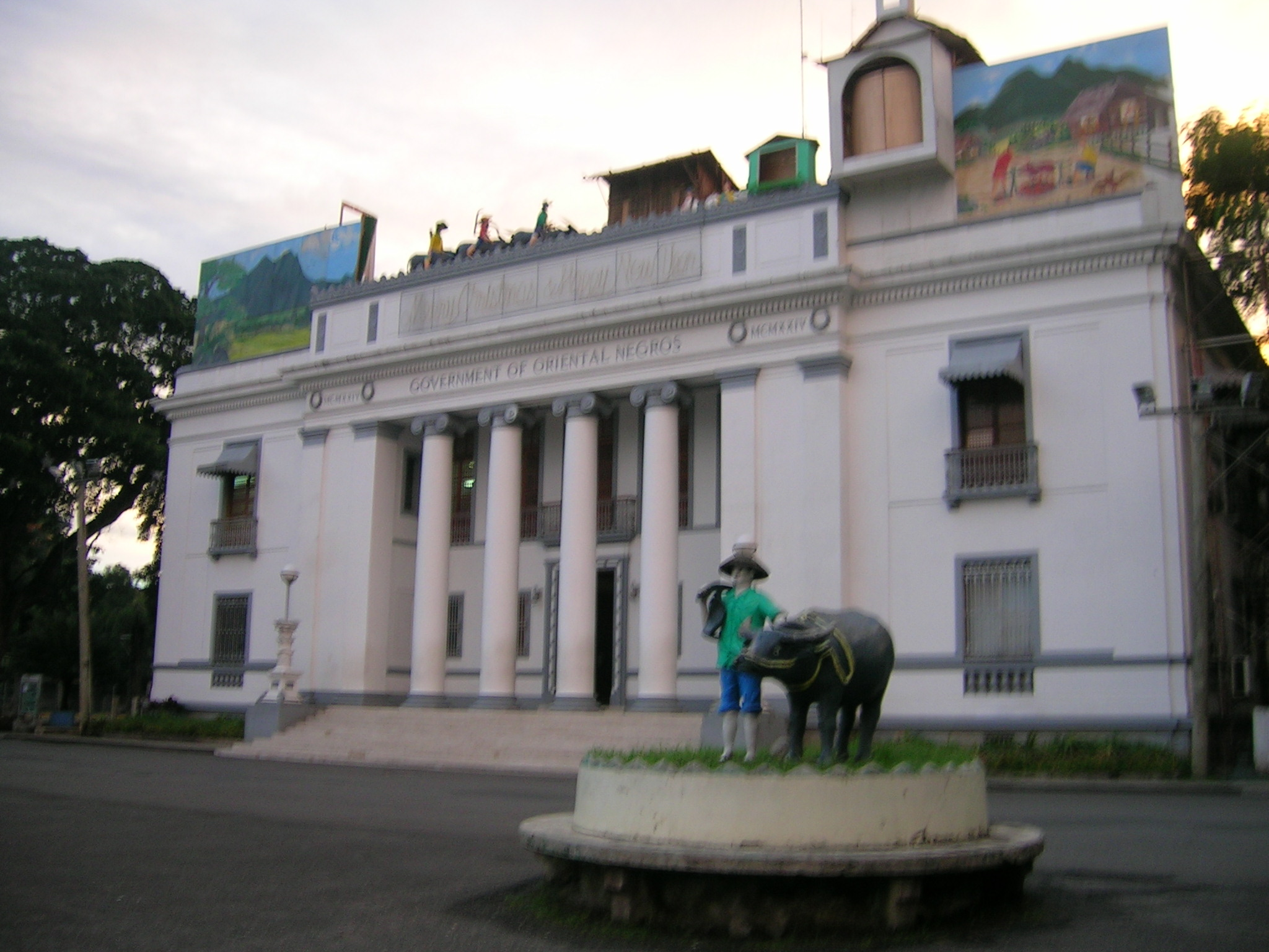 Provincial Capitol of Negros Oriental in Dumaguete City